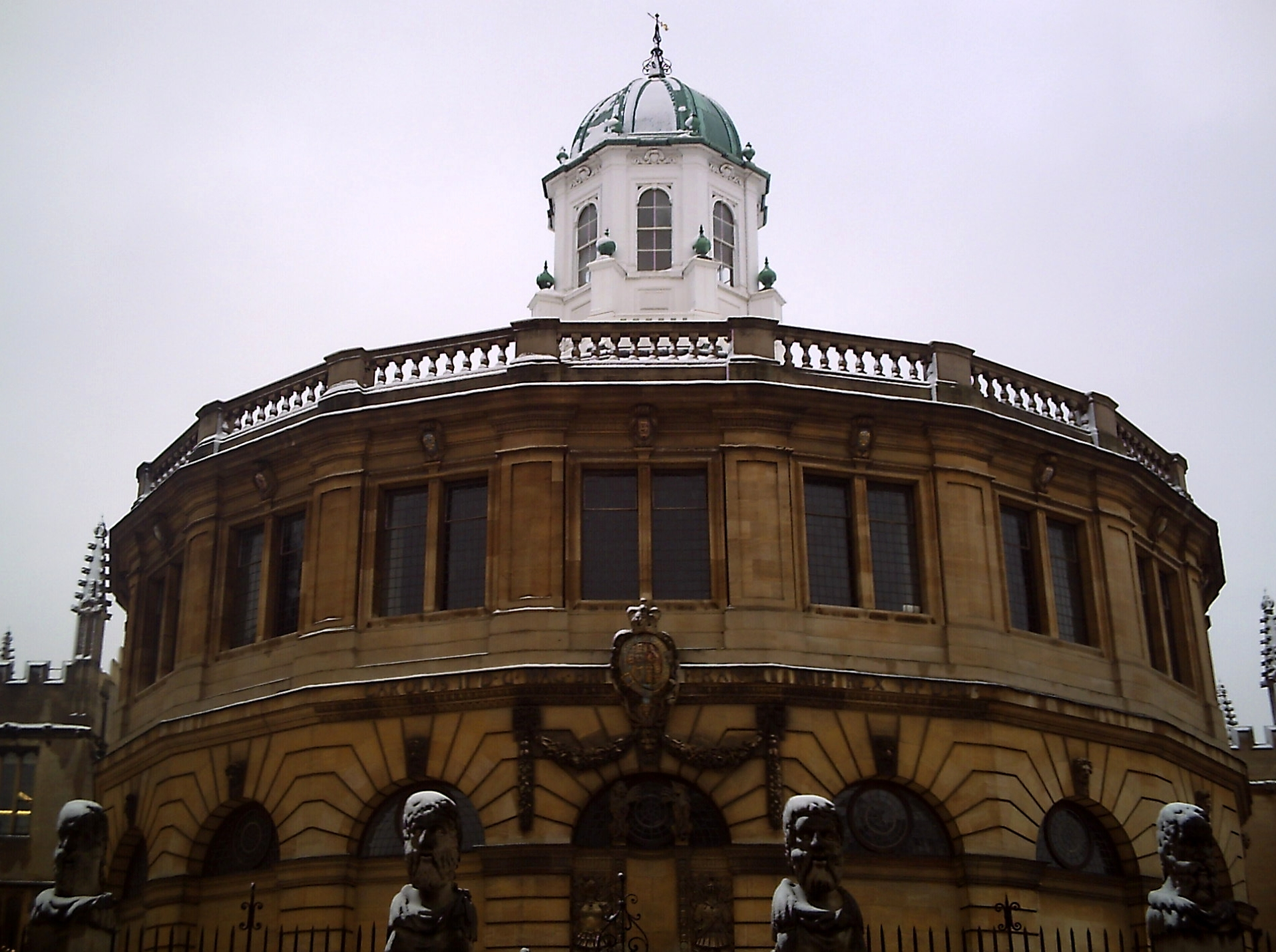 The top of the Sheldonian Theatre in Oxford. Taken from Broad street.